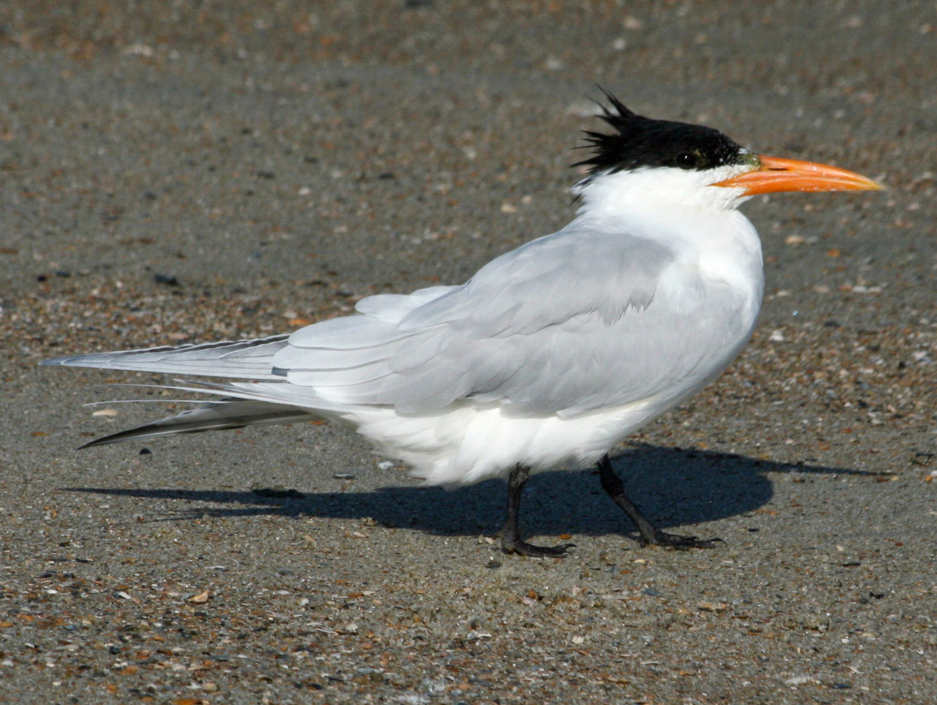 Royal Tern (Thalasseus maximus) at Tybee Island, Georgia, USA